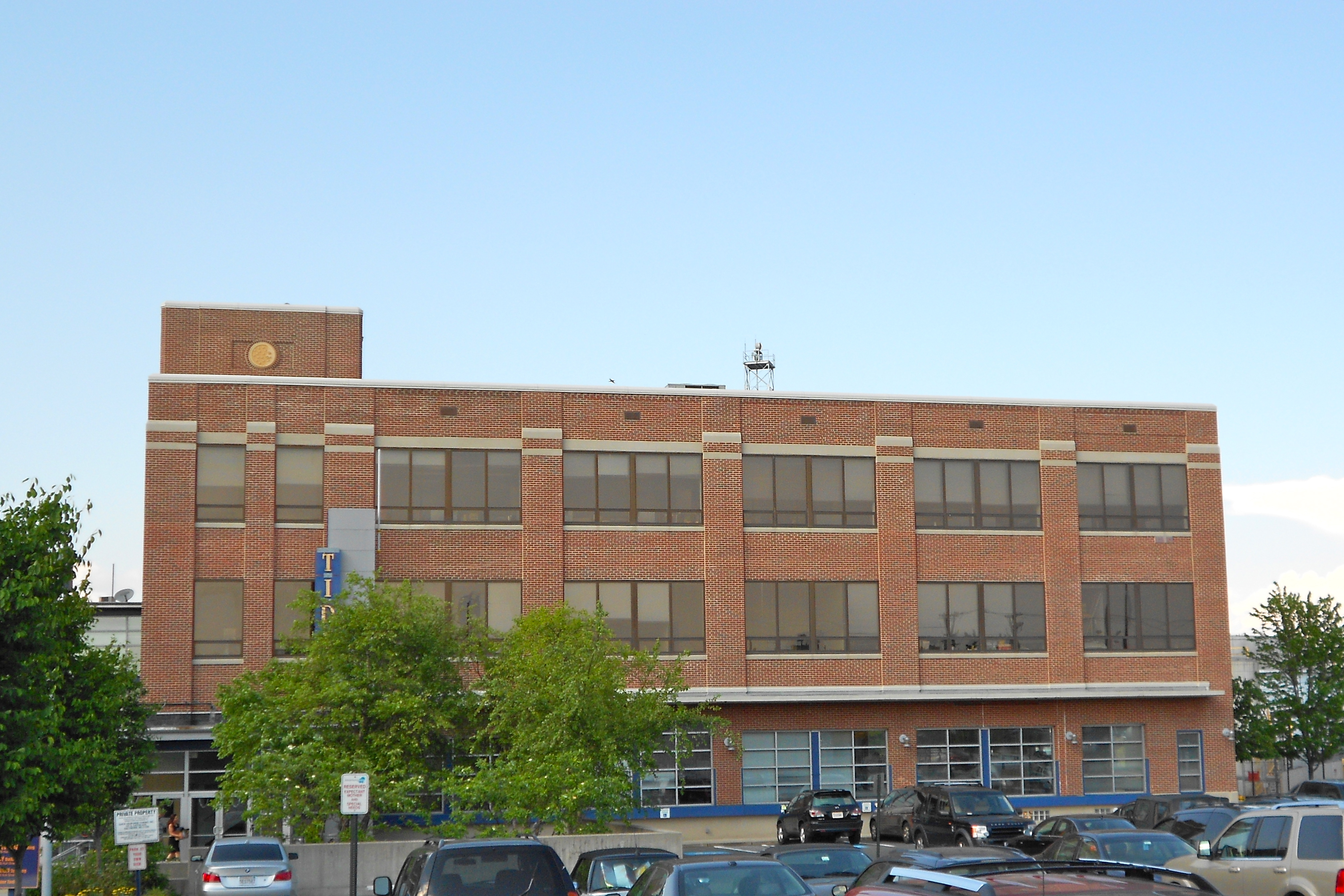 Former Procter and Gamble building in Baltimore, Maryland. Now part of the headquarters for Under Armour. On the NRHP.